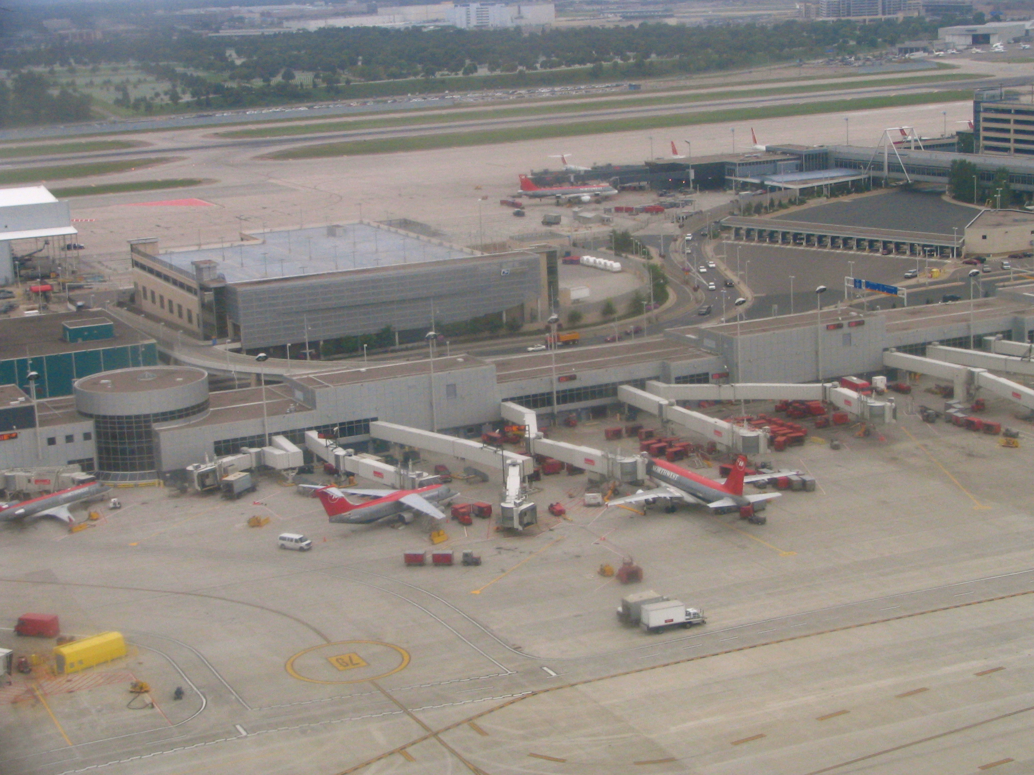 Minneapolis-Saint Paul Airport)